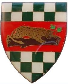 SADF First City Regiment Flash